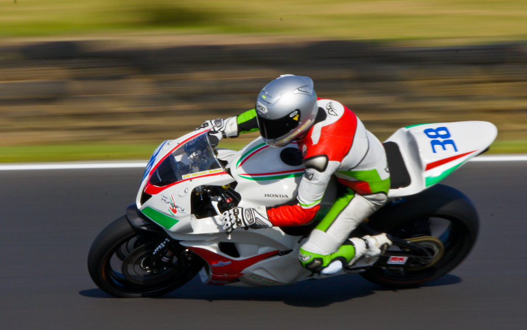 Balázs Németh, Team Hungary Toth - Honda CBR600RR in 2011 World Supersport Phillip Island round